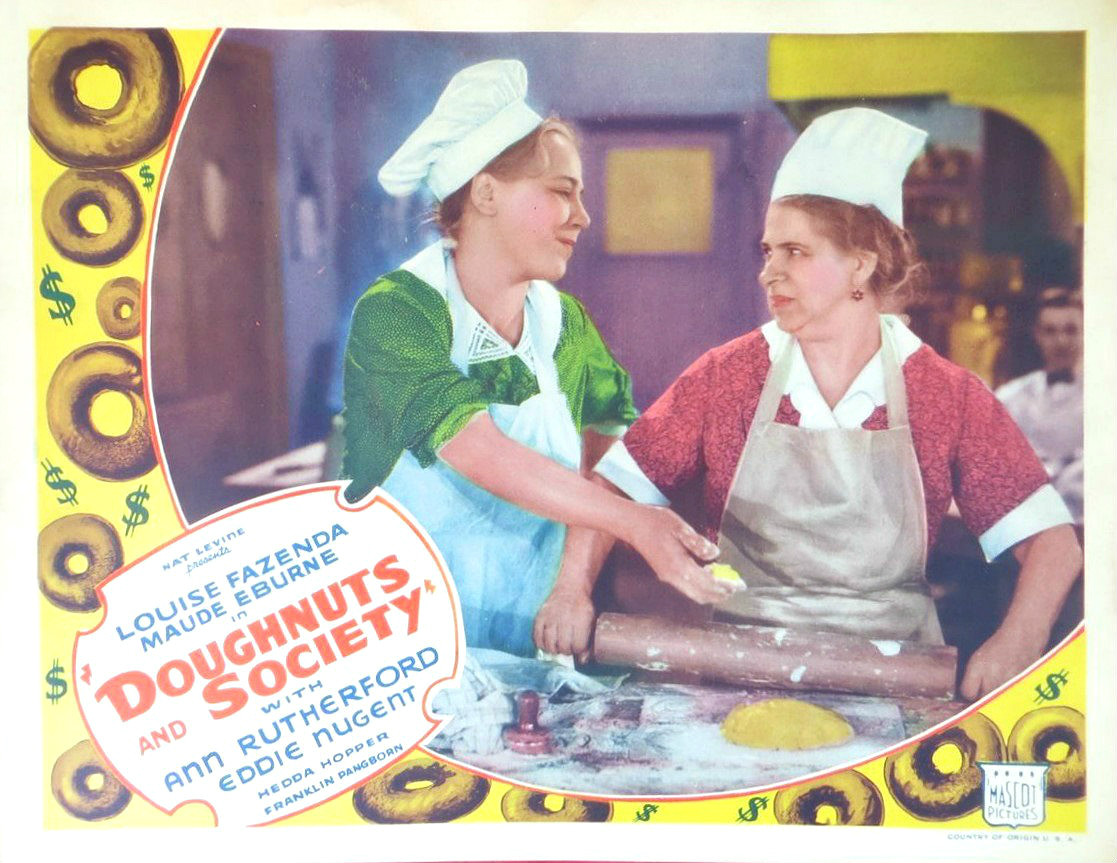 Lobby card for the American comedy film Doughnuts and Society (1936). Louise Fazenda (left) and Maude Eburne. There are no copyright marks on the card. The uncropped copy can be sen at the link above. At lower right is Country of origin USA. (Below the Mascot logo)